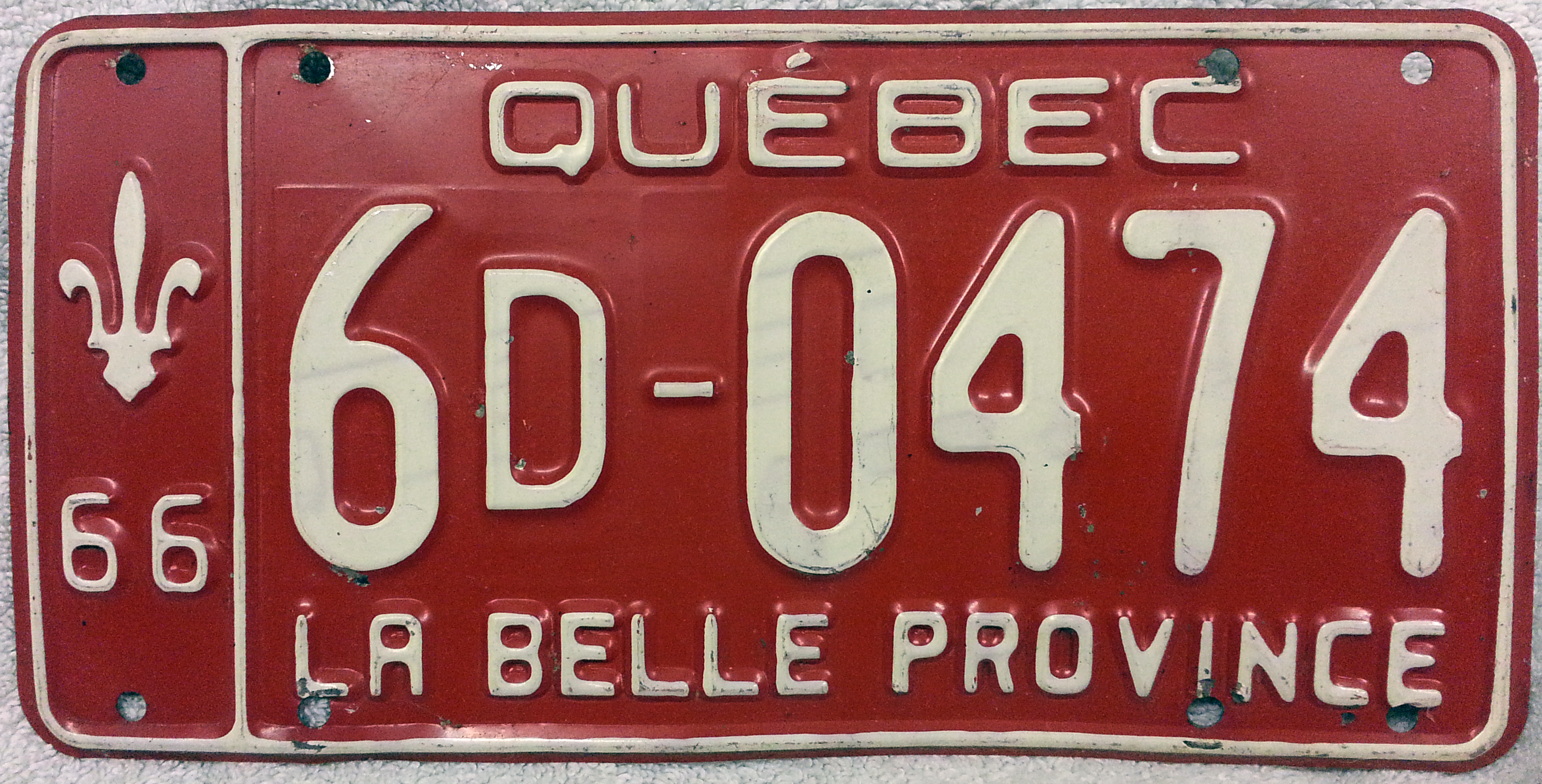 1966 number plate for a Quebec-registered passenger car. At the time, plates were replaced on an annual basis.